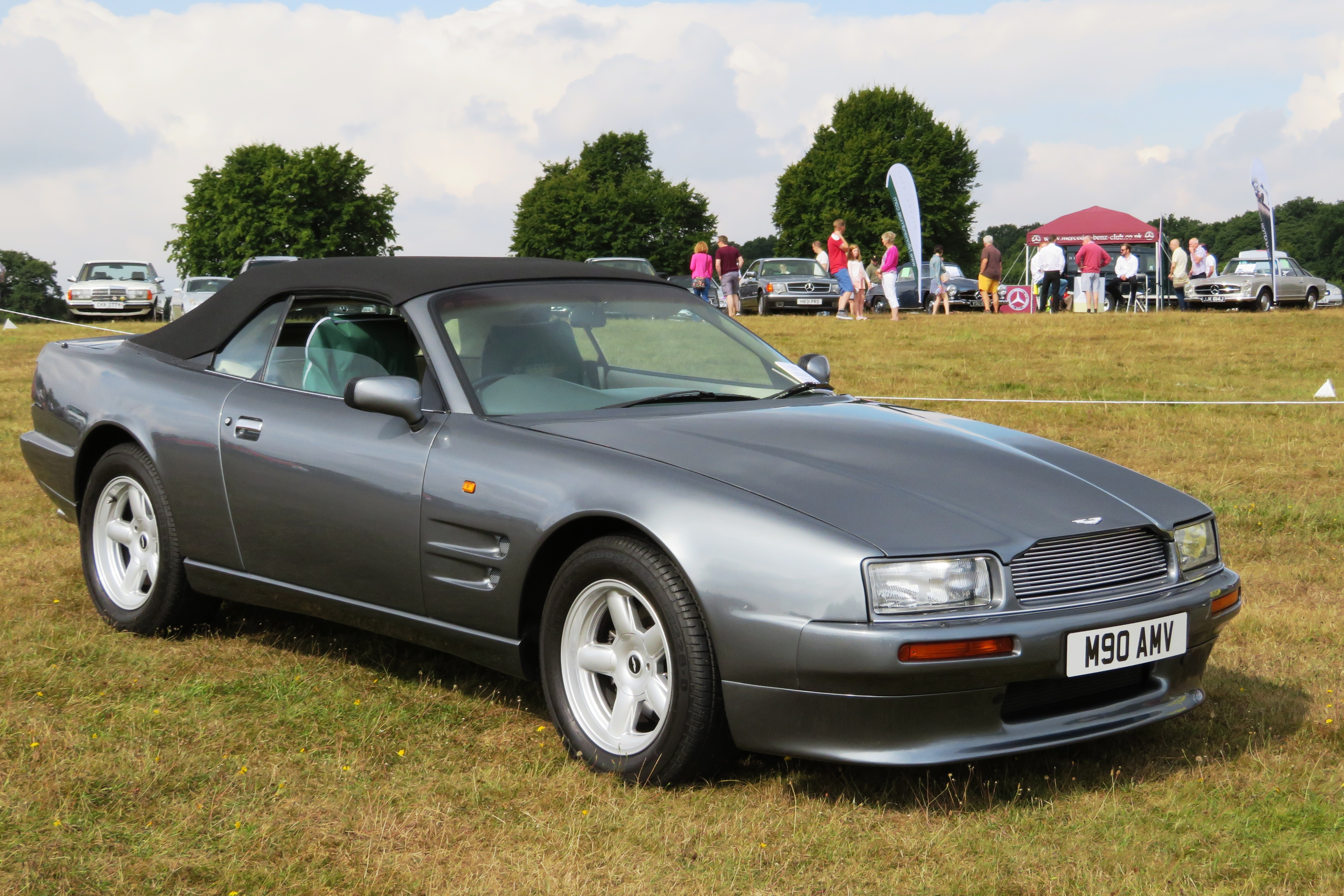 Aston Martin Virage Volante cabriolet (1995)